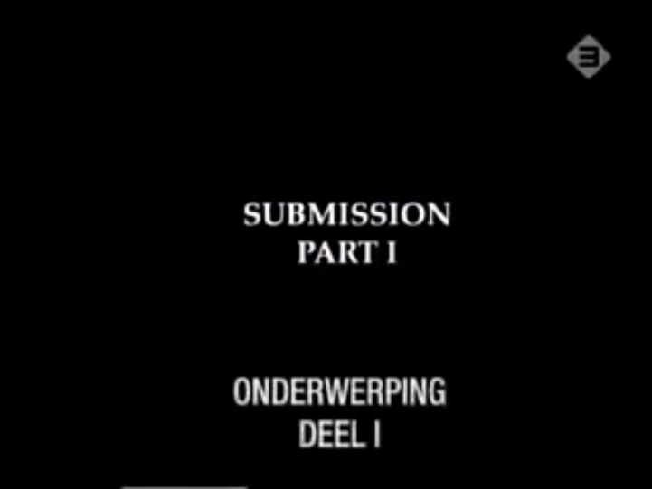 Titlecard of Submission Part I', with Dutch subtitles, released on 29 August 2004. Written, directed and produced by Theo van Gogh, Ayaan Hirsi Ali and Gijs van de Westelaken, the film criticised the position of women in Islam.